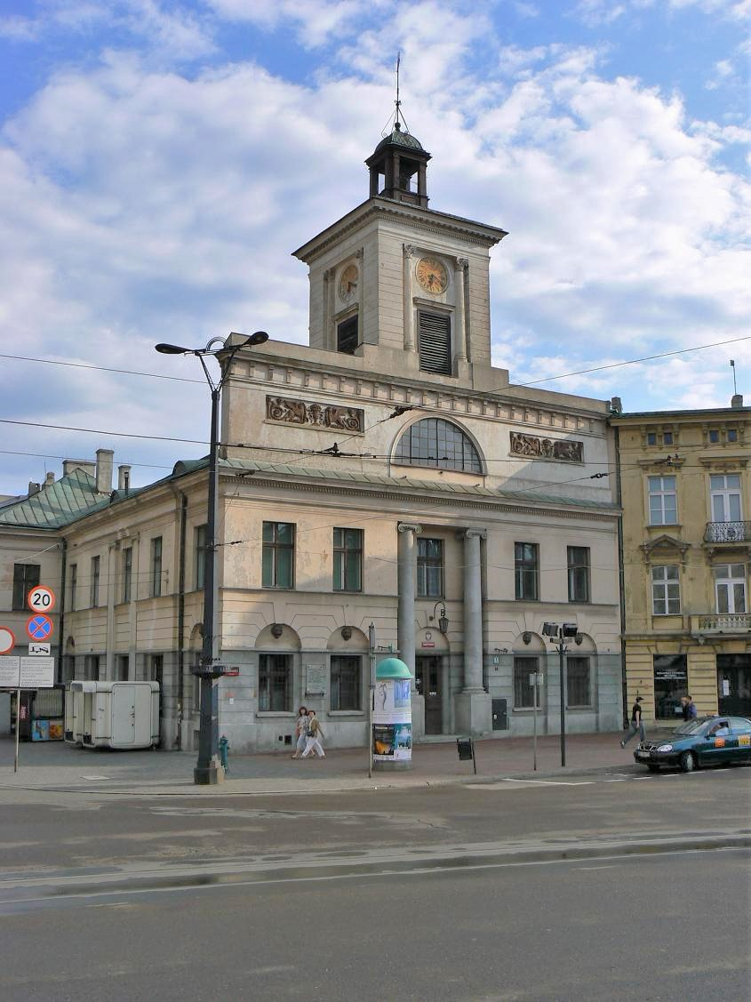 Liberty Square in Łódź